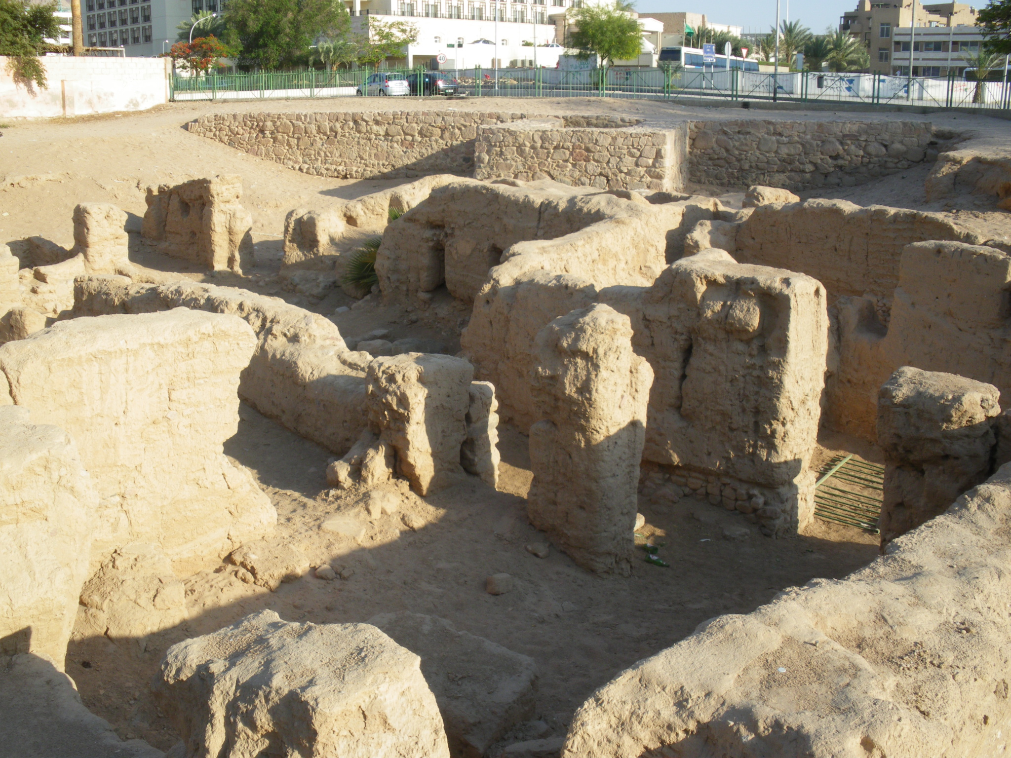 ruins of early church of Aqaba; rear, a byzantine era city wall